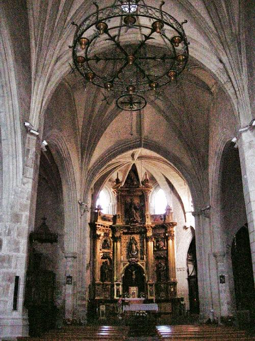 Colegiata de San Miguel de Ampudia (Palencia, Castilla y León, España)